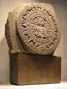 The Aztec "Calendar Stone". Museo Nacional de Antropología, Mexico City.